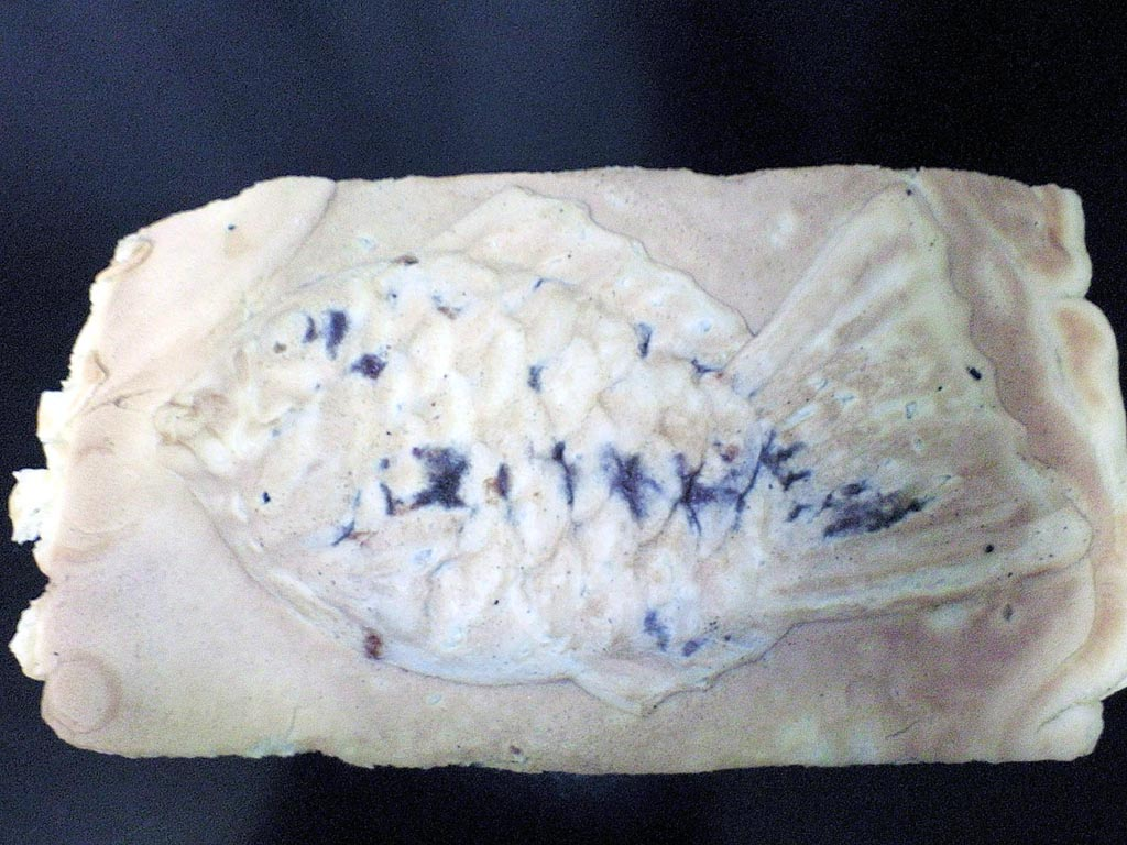 taiyaki(fish shaped japanese waffle), Tokyo, Kanda, kandadaruma